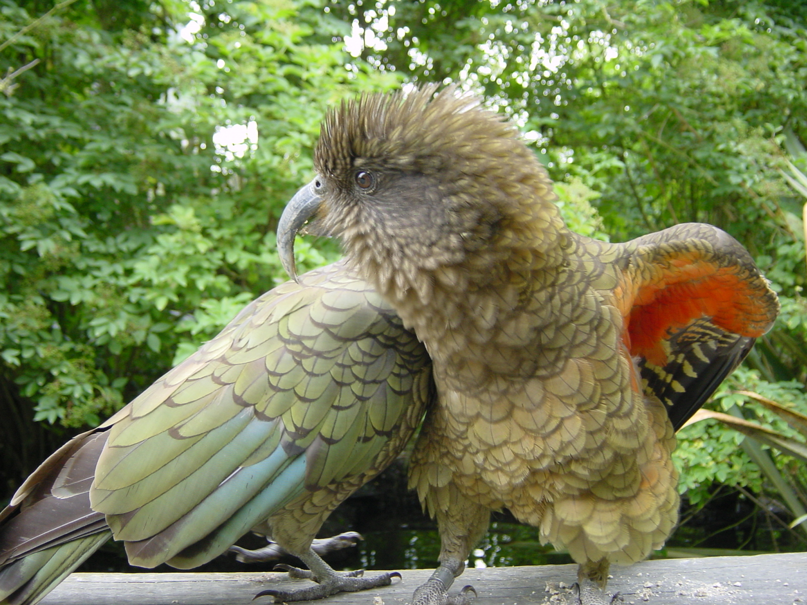 Two captive Kea Nestor notabilis preening in Casebrook, Christchurch, Canterbury, New Zealand.